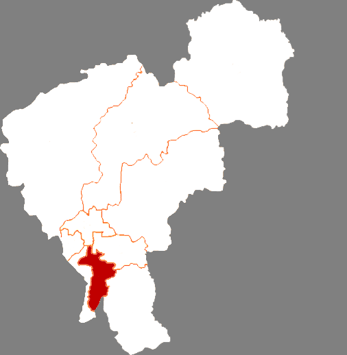 Location of Nanguan district in Changchun City, China